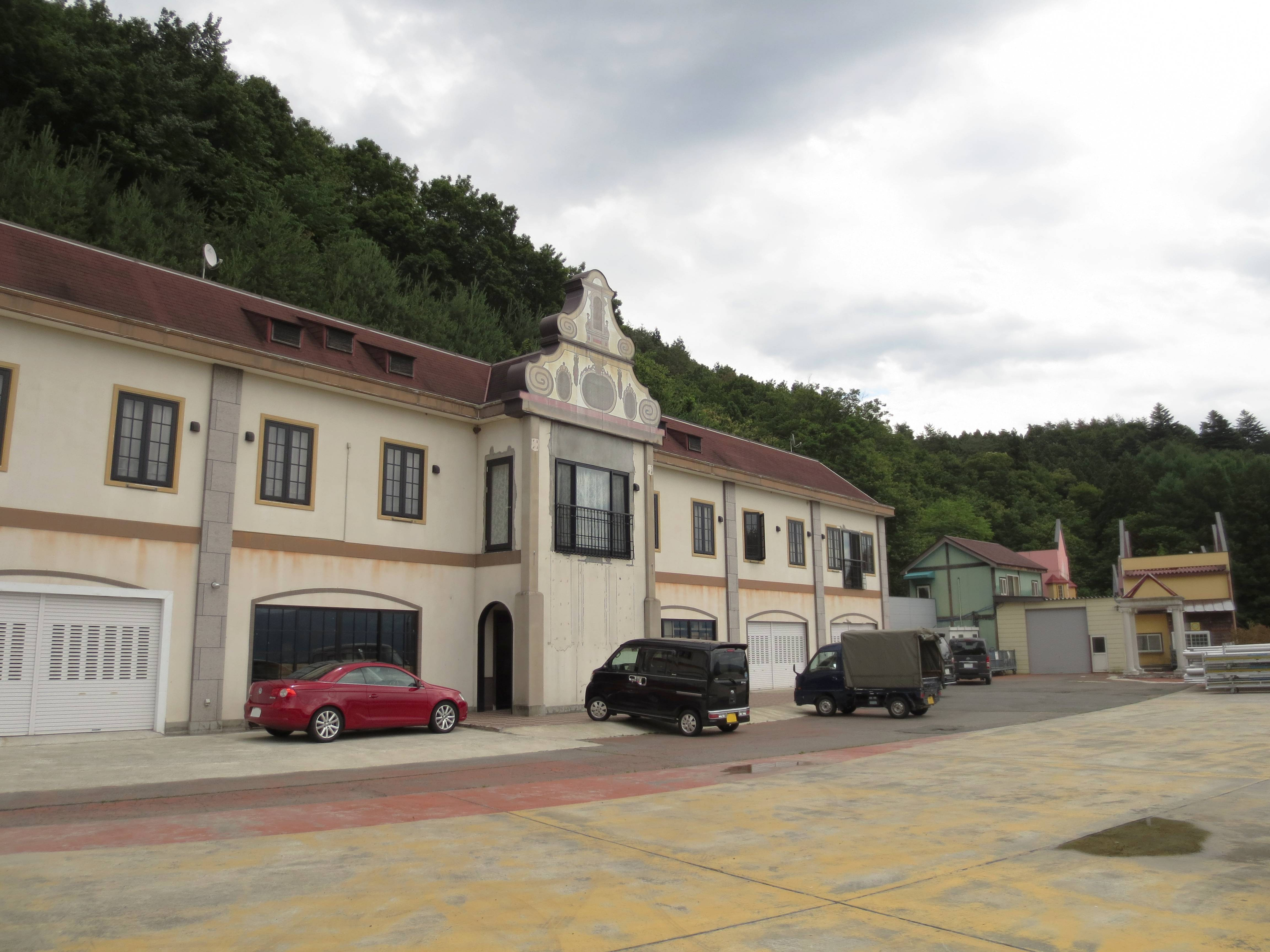 Königlich Kurort (Numata, Gunma).